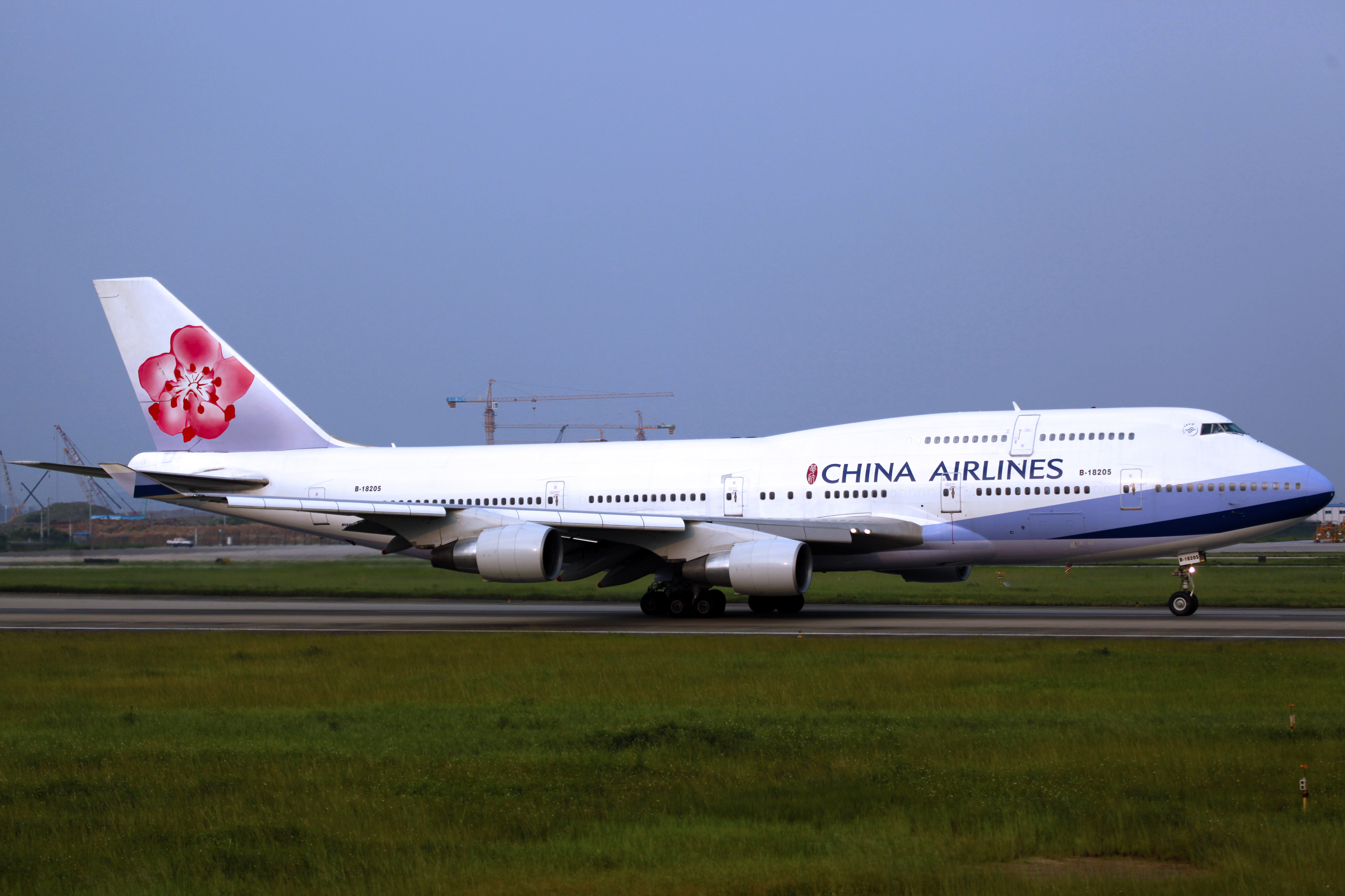 B-18205 | China Airlines | Boeing 747-409 | Guangzhou Baiyun International Airport [CAN]